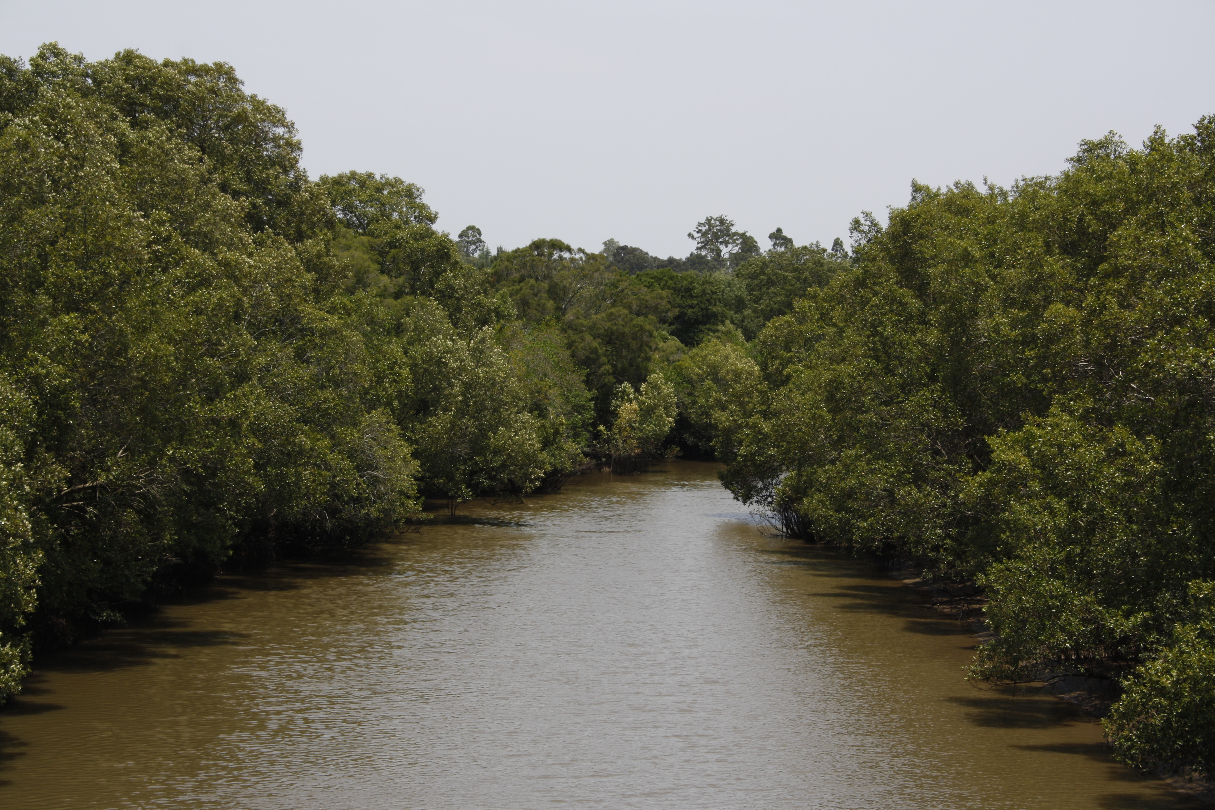 Oxley Creek near Rocklea, Brisbane, Australia.